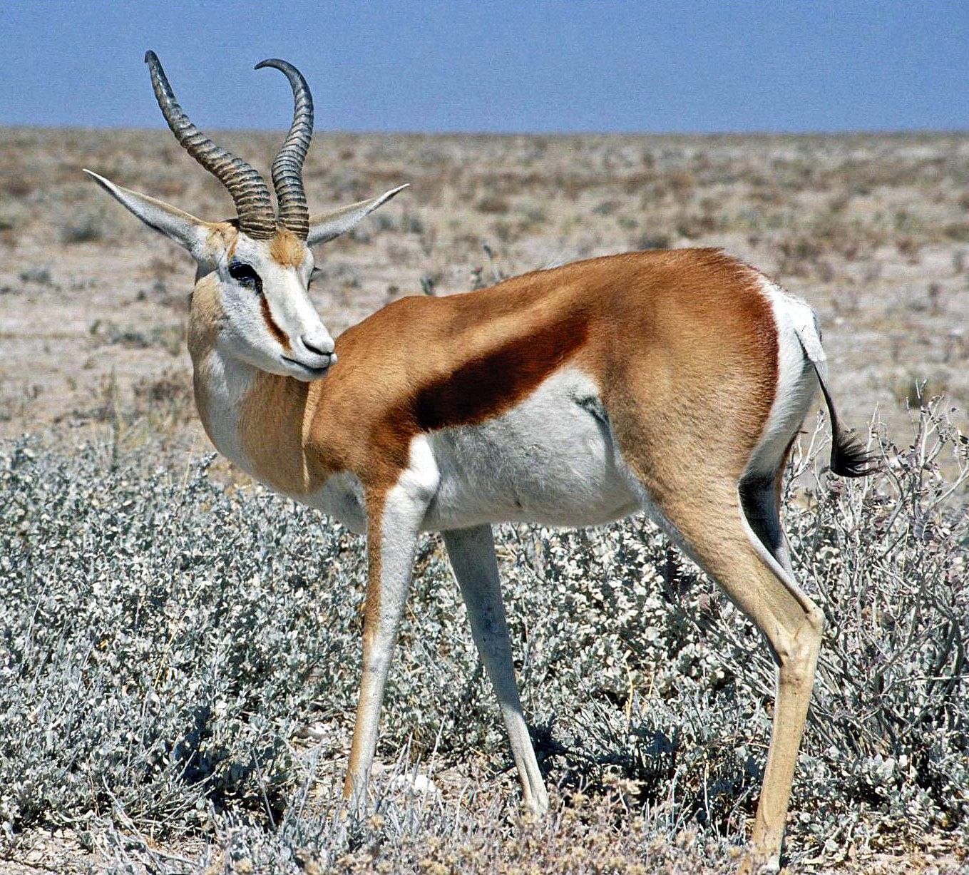 Springbok (Antidorcas marsupialis), Etosha National Park, Namibia